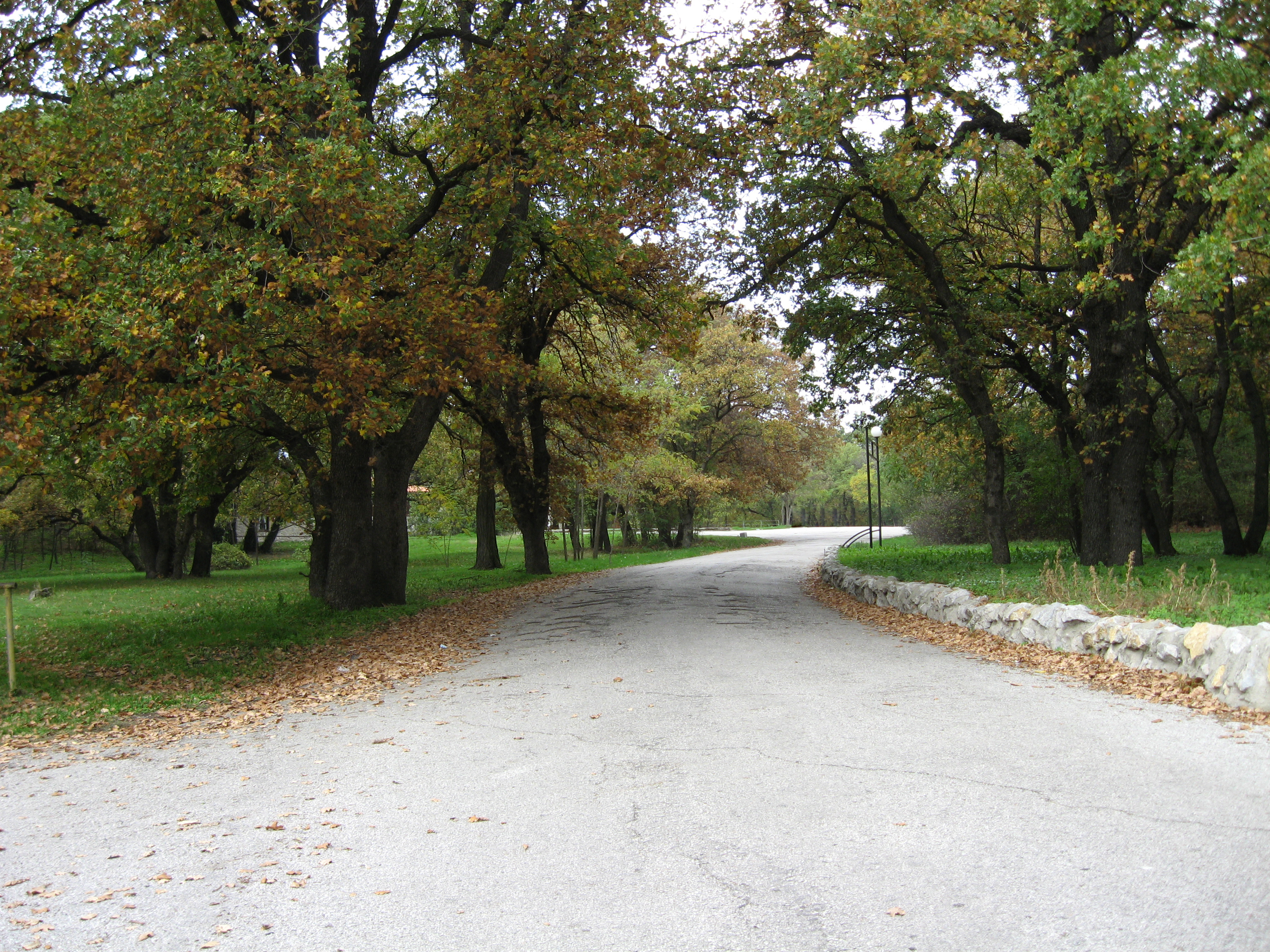 Park „Kenana“, Haskovo, Bulgaria